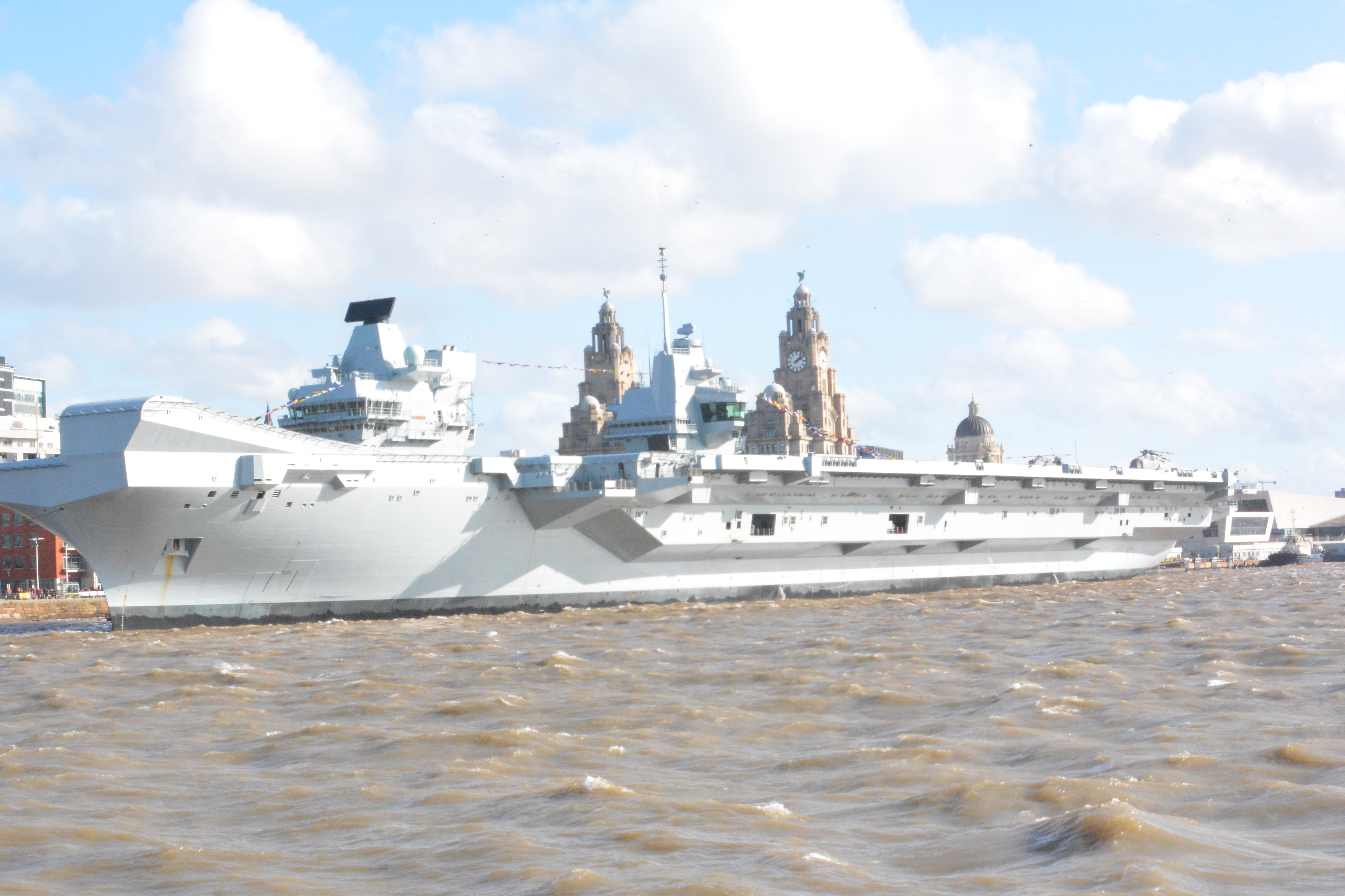 HMS Prince of Wales (R09) at the River Mersey on February 29, 2020.